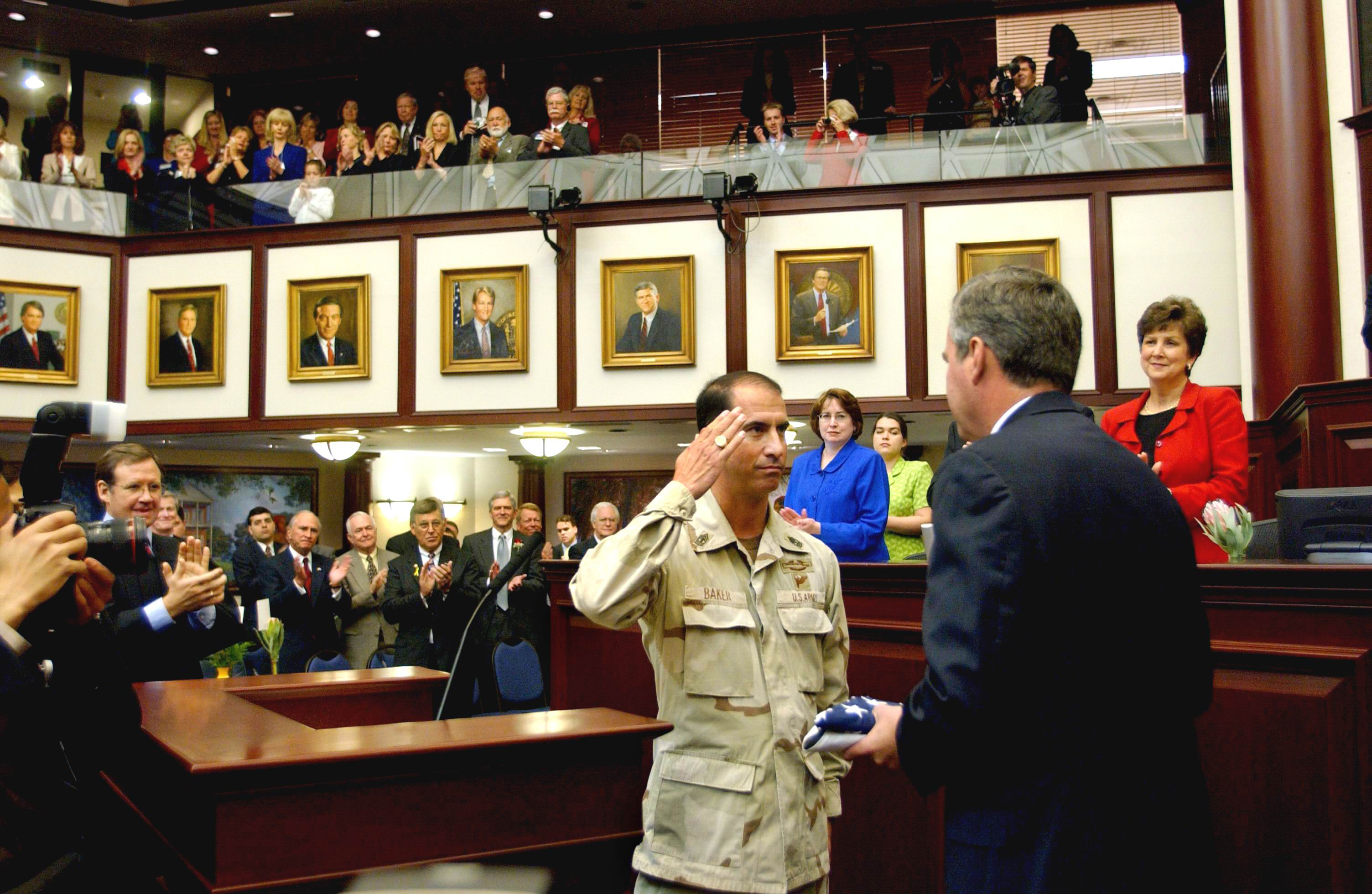 Speaker pro-tempore Rep. Lindsay Harrington, R-Punta Gorda, left, and Senate President pro-tempore Alex Diaz de la Portilla, R-Miami, pose for a leadership portrait during the opening joint session of the 2004 Legislature March 2, 2004.